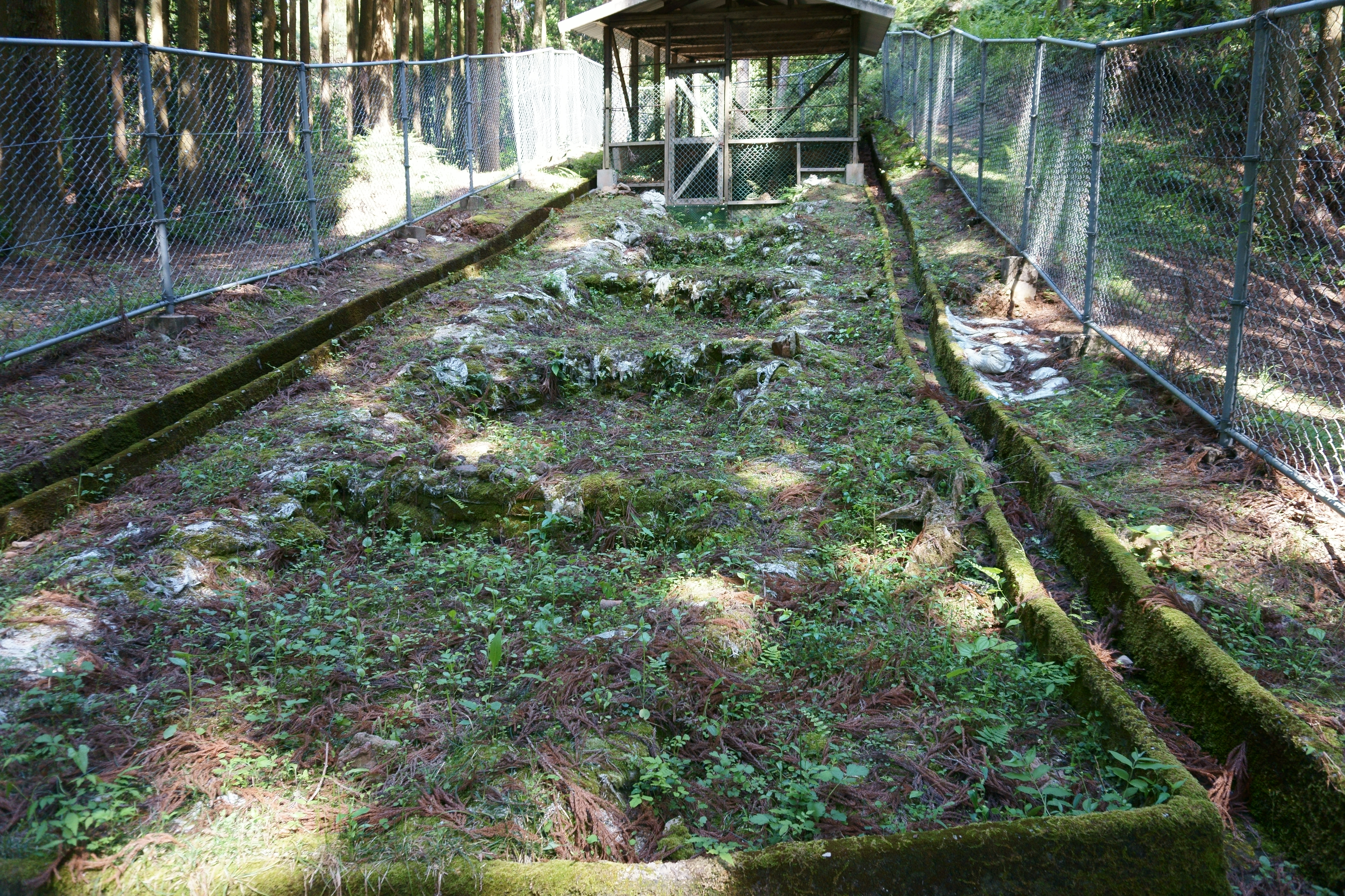 Old Handougame-shimo kiln(Part of Kishidake Old kilns of Karatsu ware) in Hieda, Kitahata, Karatsu city, Saga prefecture.